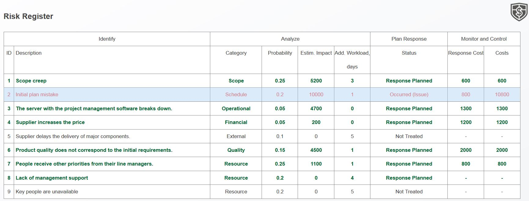 The example of the Risk Register for a project that includes 4 steps: Identify, Analyze, Plan Response, Monitor and Control.